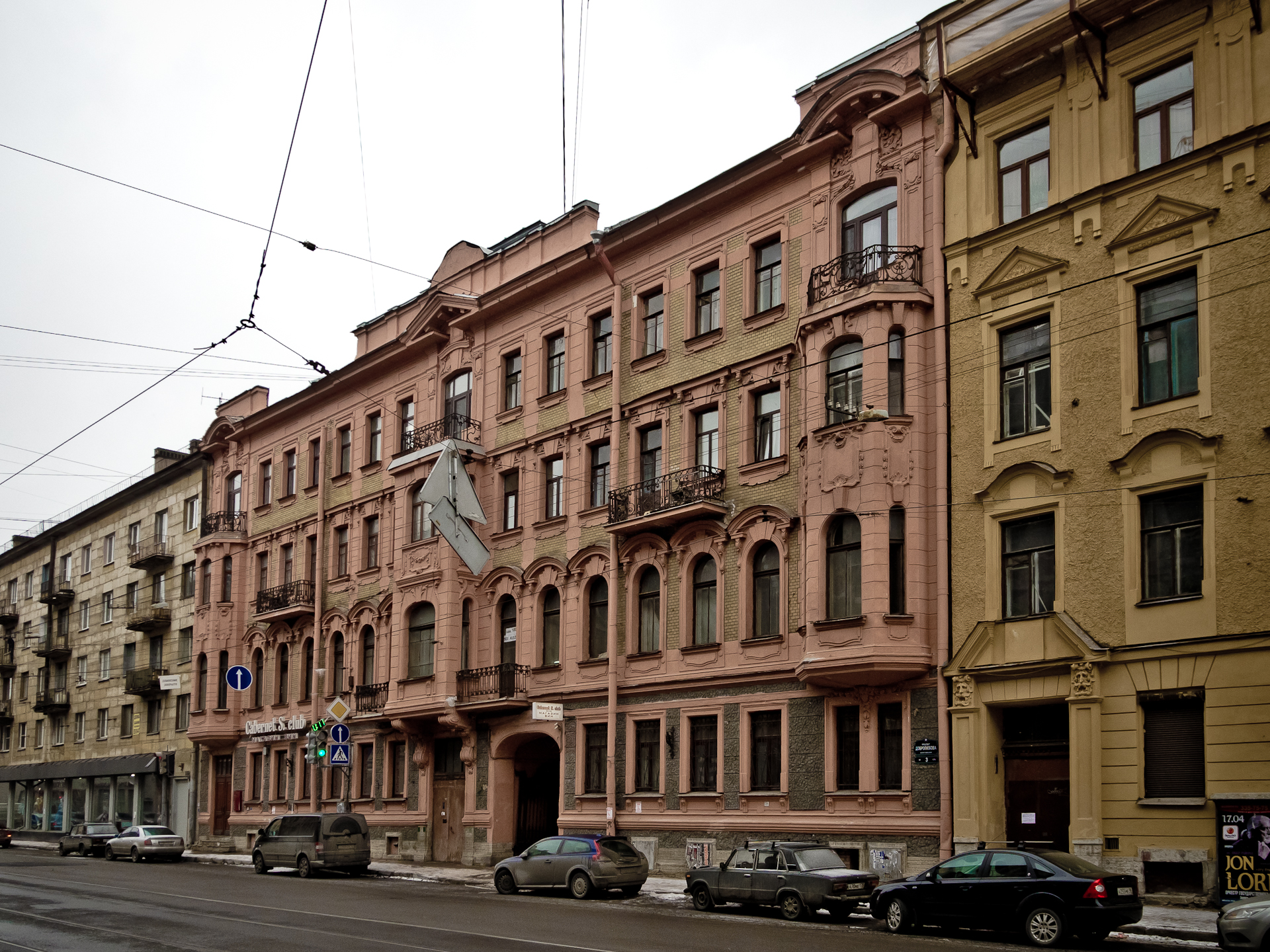 3, Dobroljubova avenue, Saint Petersburg